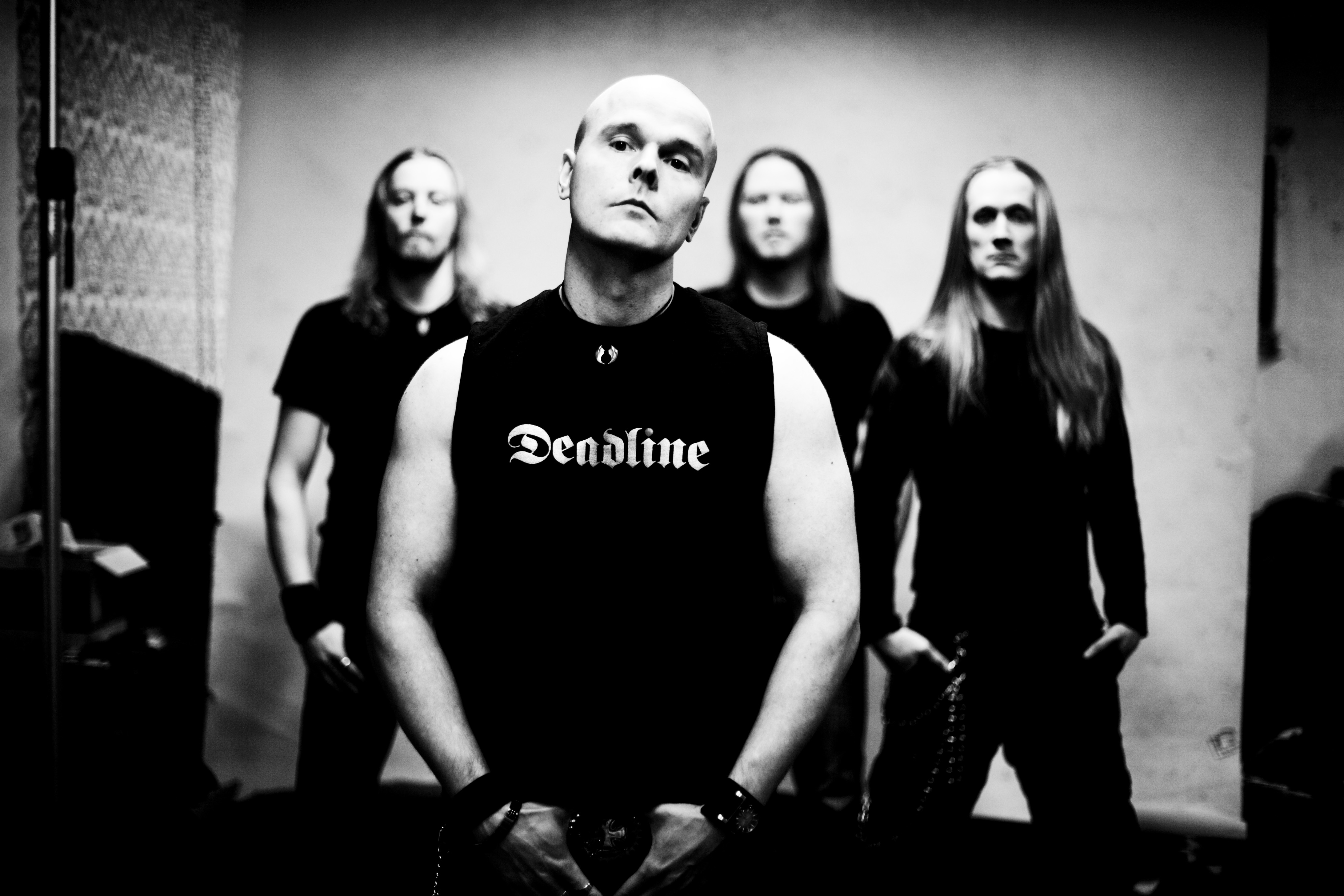 Widescreen Mode in 2009. From left to right: Janne Lahtinen, Samu Brusila, Janne Aaltonen and Janne Stenroos.